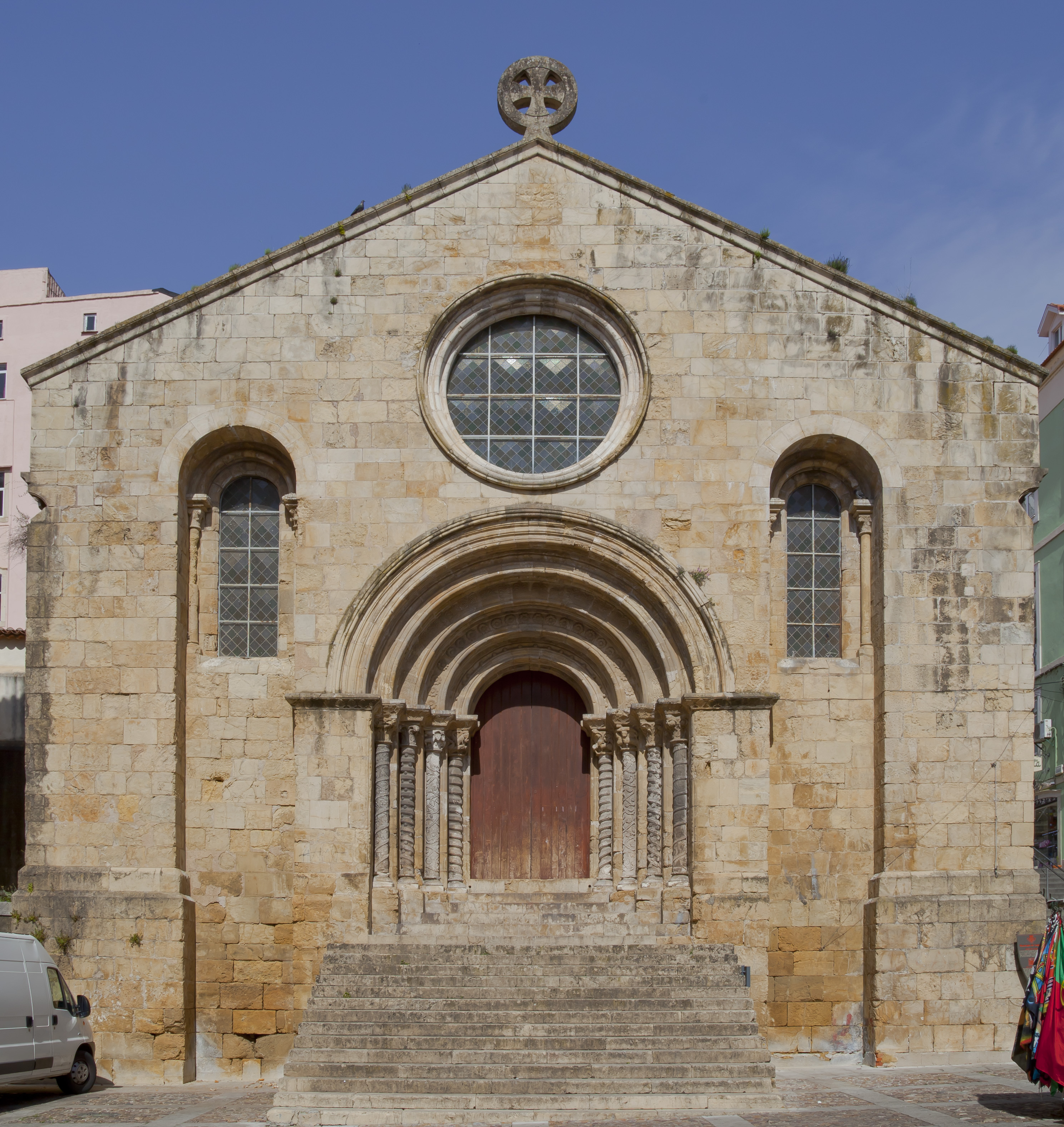 Church of Santiago, Coimbra, Portugal